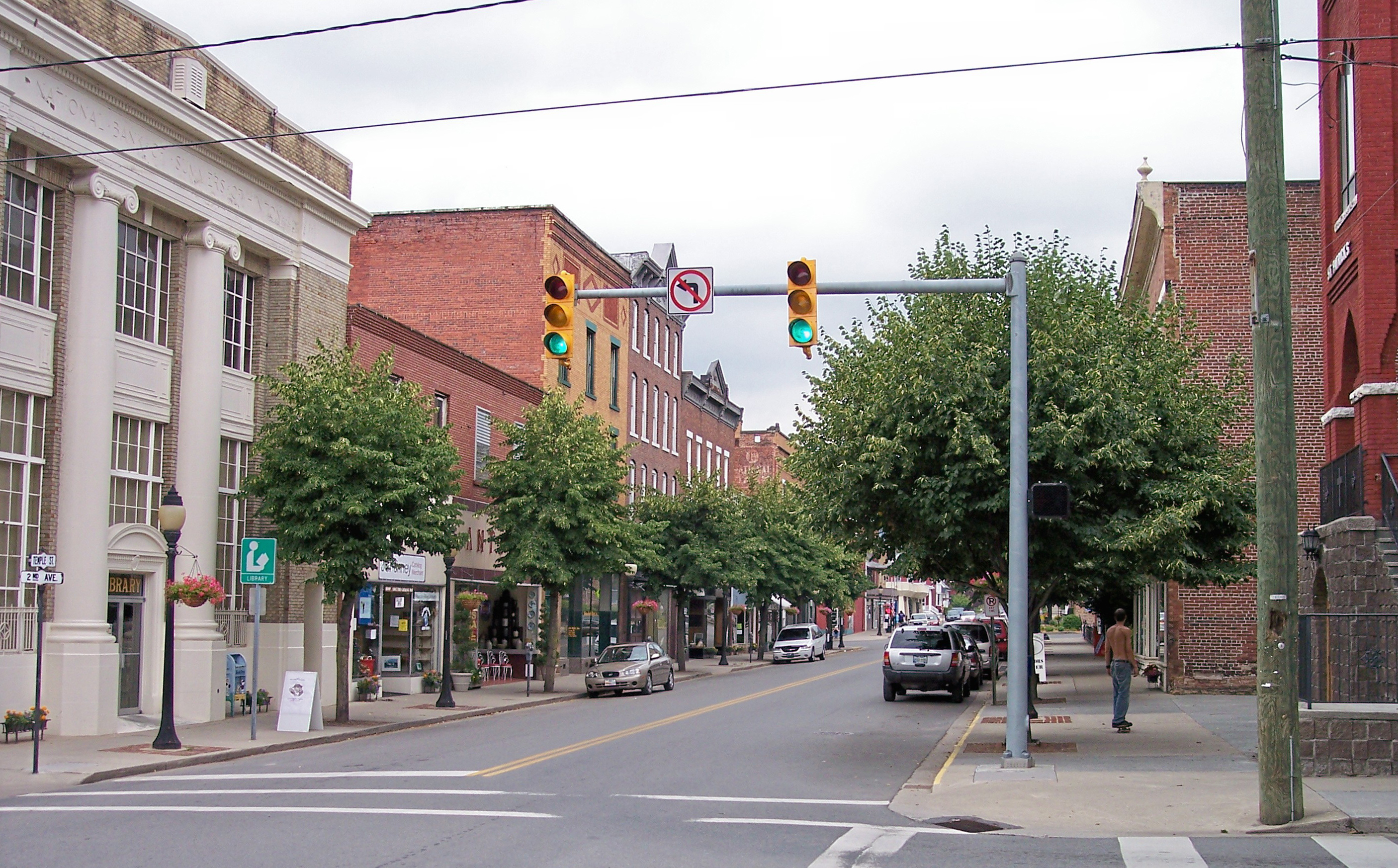 Temple Street (West Virginia Route 20) as viewed from 2nd Avenue in Hinton, West Virginia